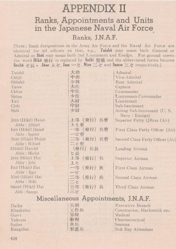 Imperial Japanese Navy ranks, republished by US Army Airforce 1944